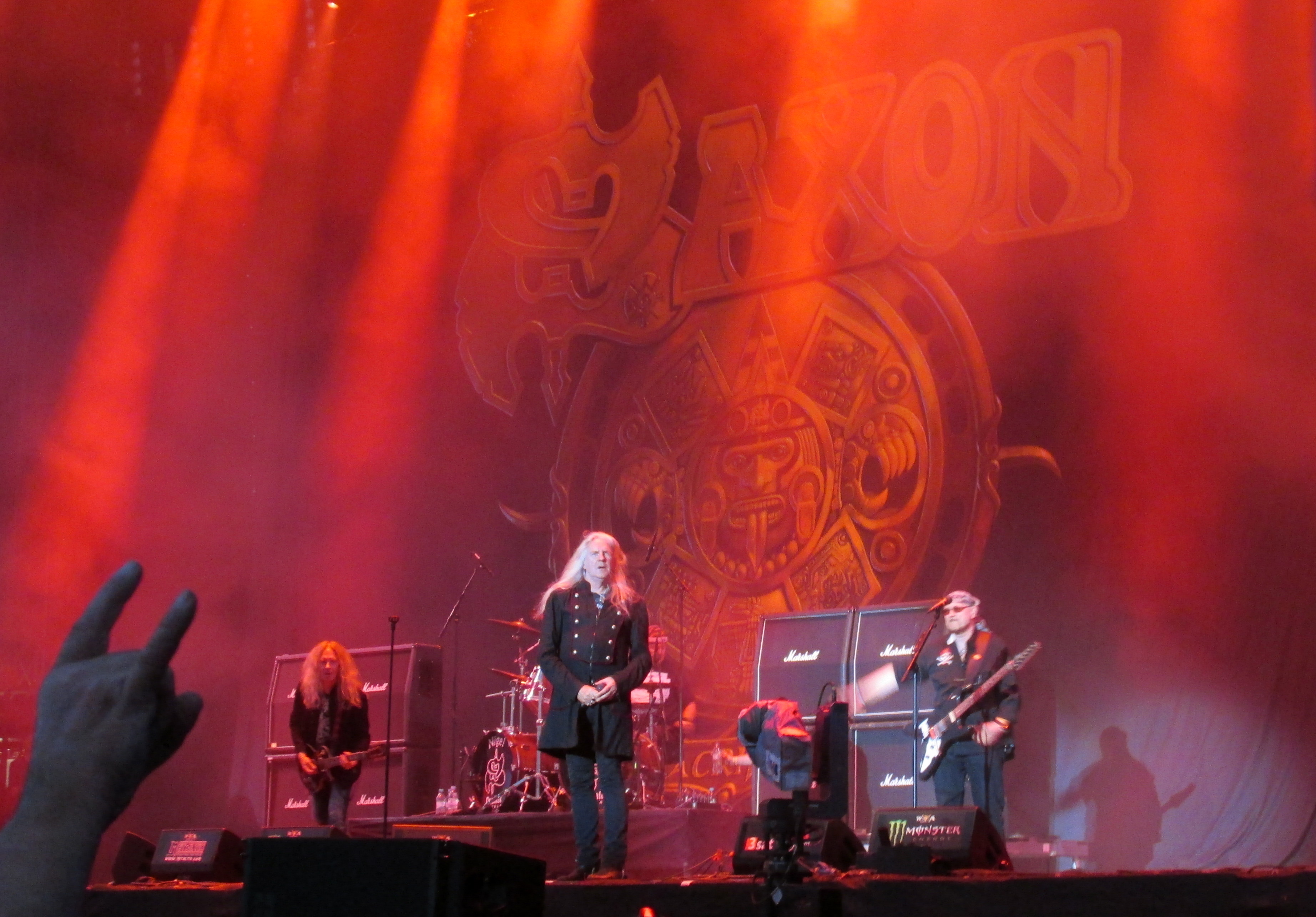 Saxon at Wacken Open Air 2014